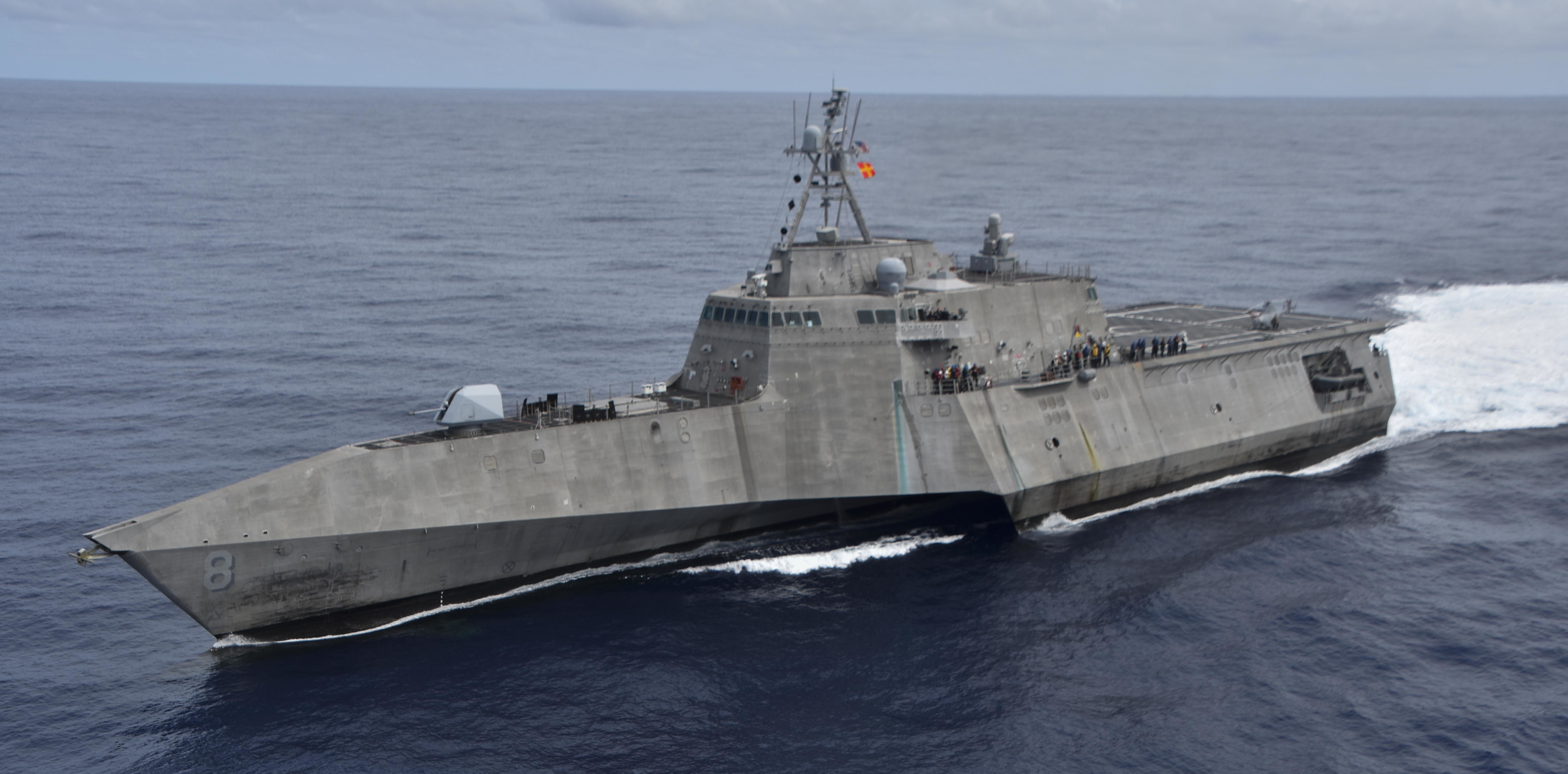 PHILIPPINE SEA (May 12, 2020) The Independence-variant littoral combat ship USS Montgomery (LCS 8) prepares to pull alongside the Lewis and Clark-class dry cargo and ammunition ship USNS Cesar Chavez (T-AKE 14) during a replenishment-at-sea. (U.S. Navy photo by Matthew Coveney/Released)200512-N-UA460-0006